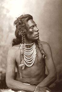 Curley, Crow scout for Custer at Little Bighorn; bust-length. Photographed by David F. Barry, ca. 1876. American Indian Select List number 167. "There are no Use Restrictions for this photo. It is in the public domain."